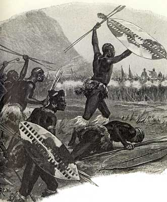 Zulus attacking at the Battle of Isandlwana